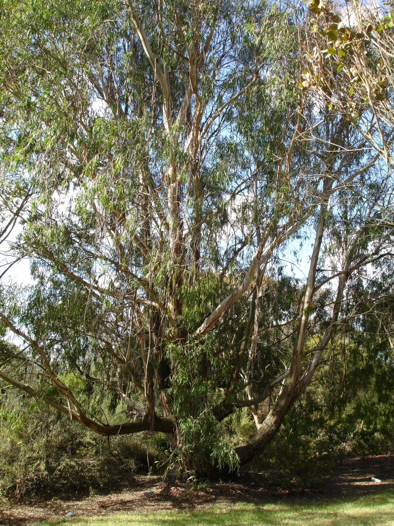 Photographed at Maranoa Gardens, Melbourne, Victoria, Australia HelloMojo 08:10, 6 April 2007 (UTC)